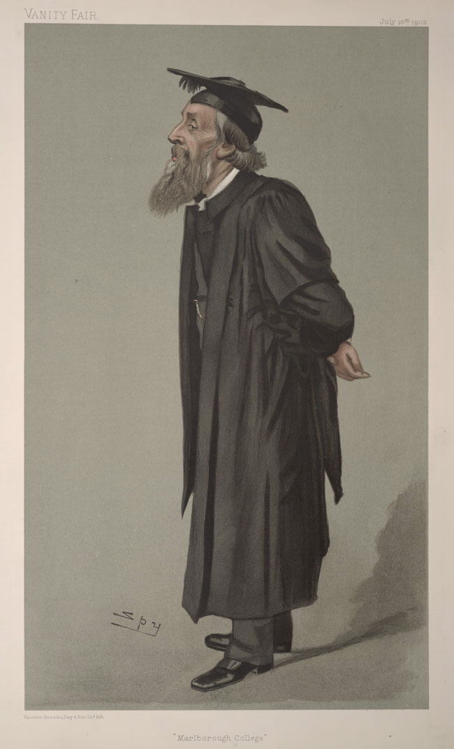 Men of the Day No.844: Caricature of The Rev George Charles Bell (1832-1913). Headmaster at Marlborough College (1876-1903) info. Caption reads: "Marlborough College"